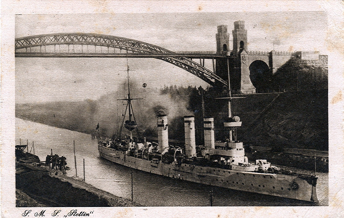 Postcard, undated ( ca.1914 ). Title: "S.M.S. Stettin"